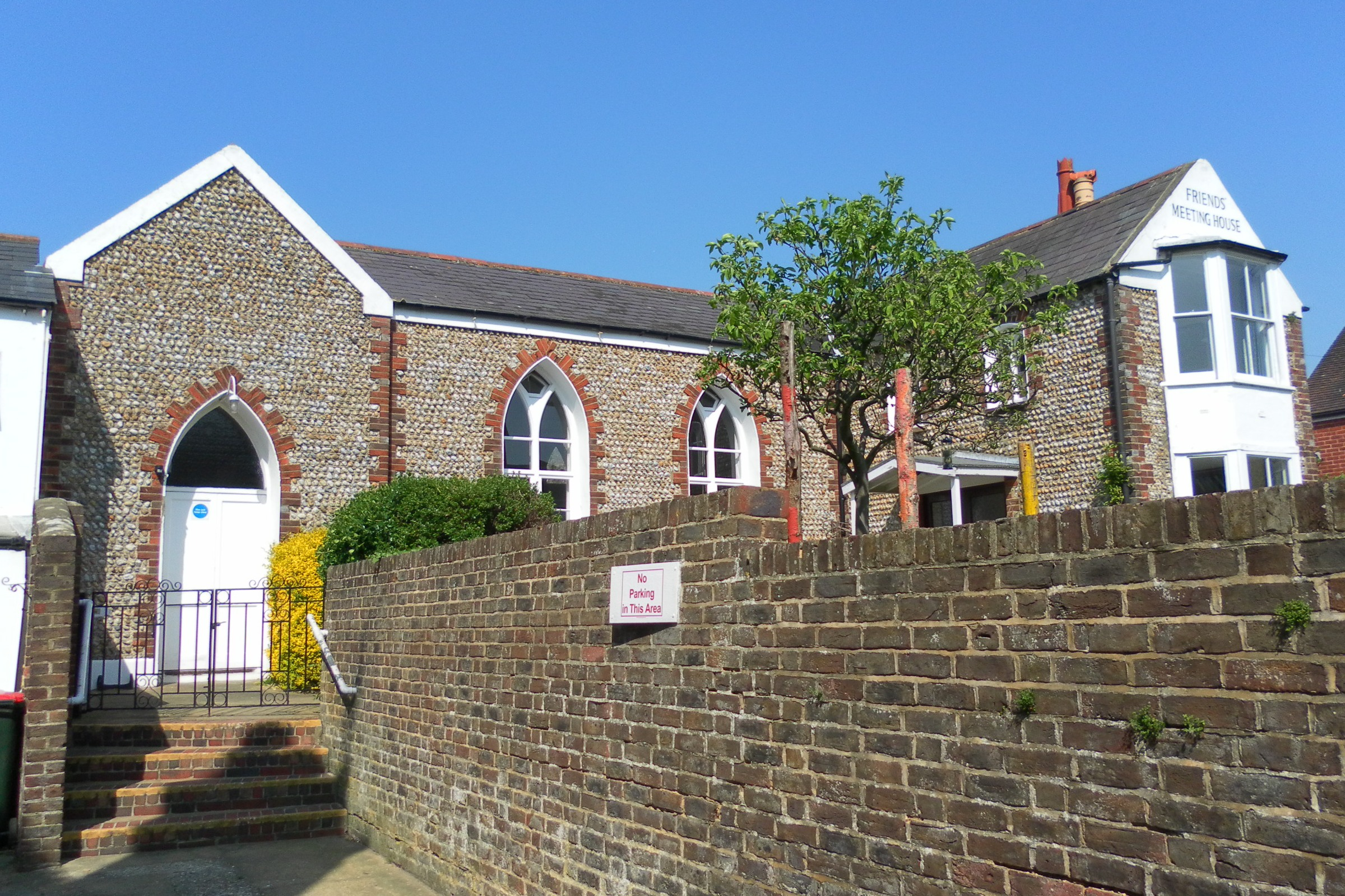 Friends' Meeting House, Church Street, Littlehampton, West Sussex, England. Built as a school in 1835; now used by Society of Friends.